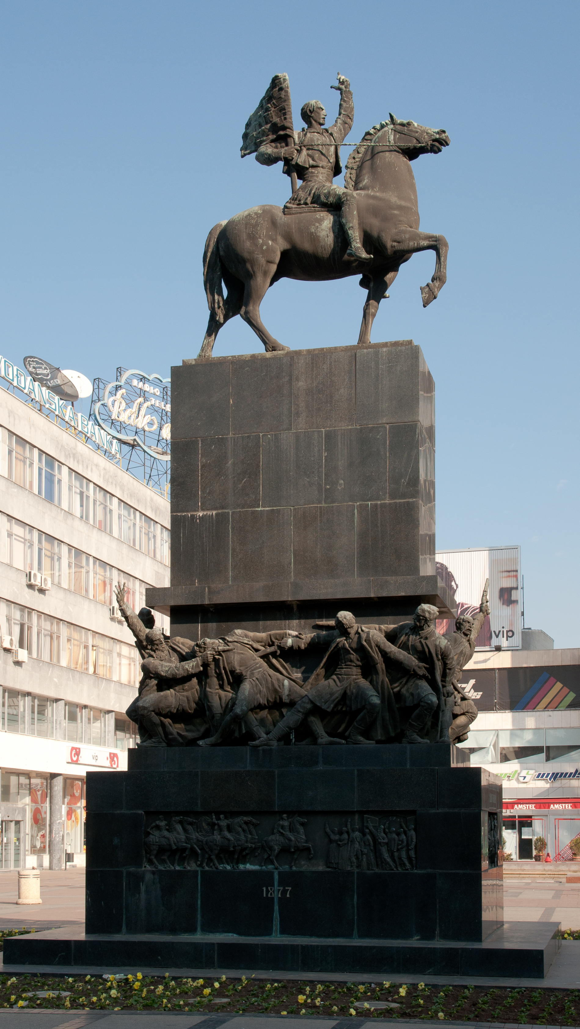 The monument to liberators at King Milan square in Nish, Serbia.